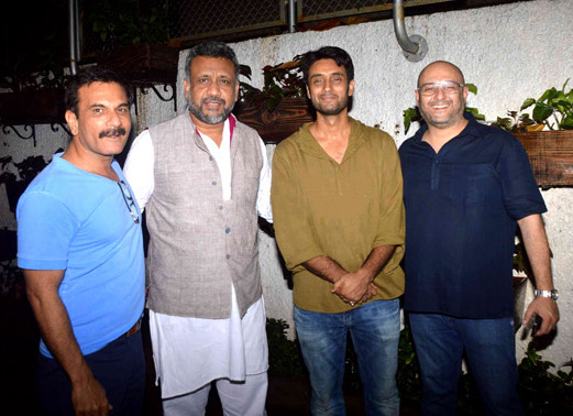 Pawan Malhotra, Anubhav Sinha, Anurag Singh, Raju Singh at Punjab 1984 screening event